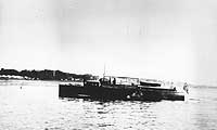 Motorboat Whippet prior to her United States Navy service as patrol boat USS Whippet (SP-89)